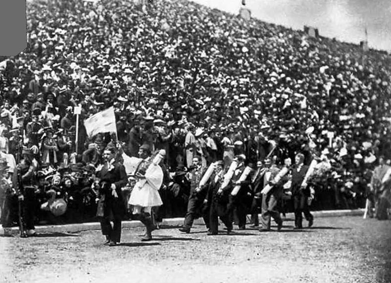 Parade of the winners (1st and 2nd place) of the Olympic Games of 1894 during the closing ceremony in the Olympic Stadion in Athens. Spiridon Louis leads the parade